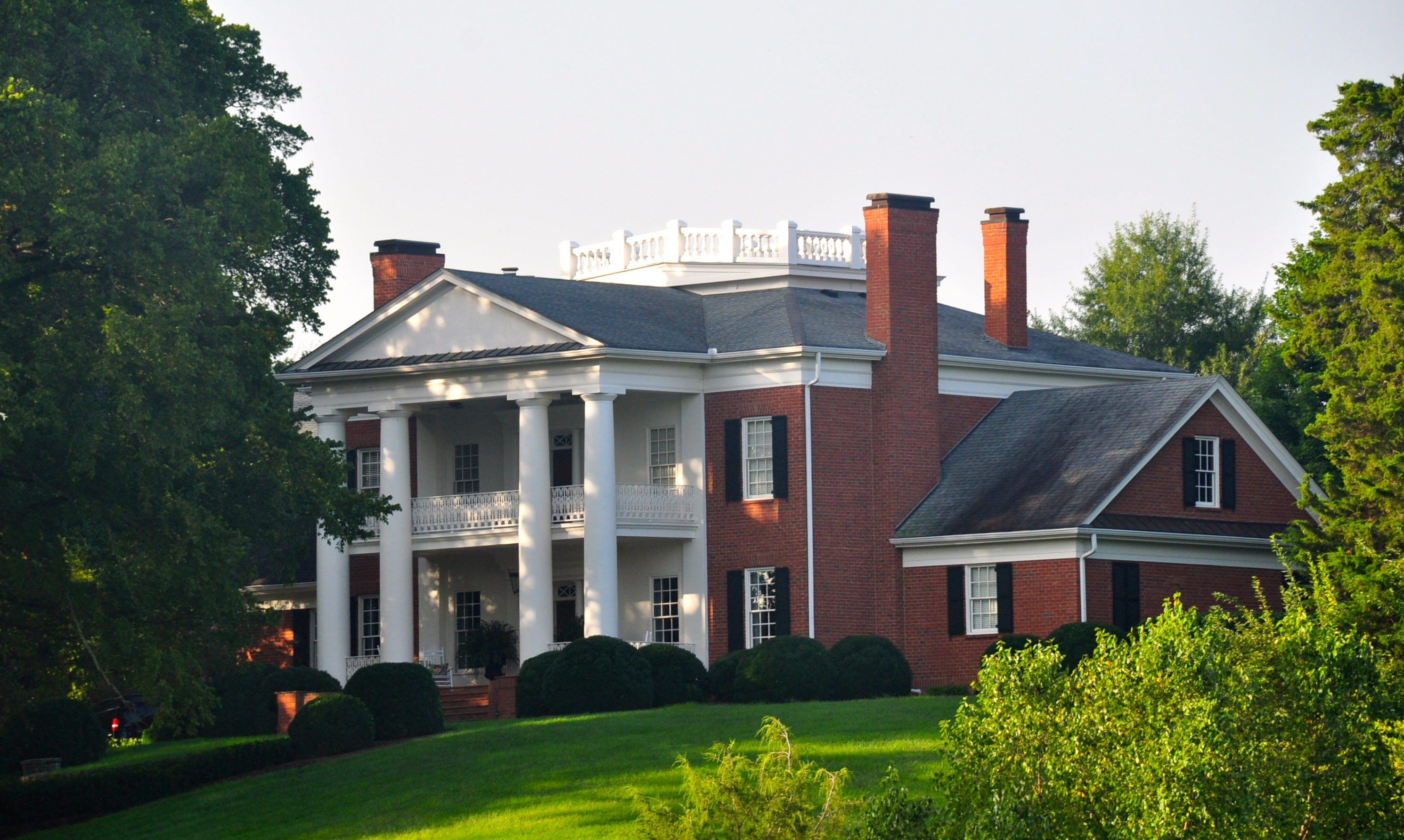 Pleasant Hill Mansion, designated WM-107, one of the John M. Winstead Houses, Concord Rd., 1 mile (1.6 km) east of Edmondson Pike Brentwood